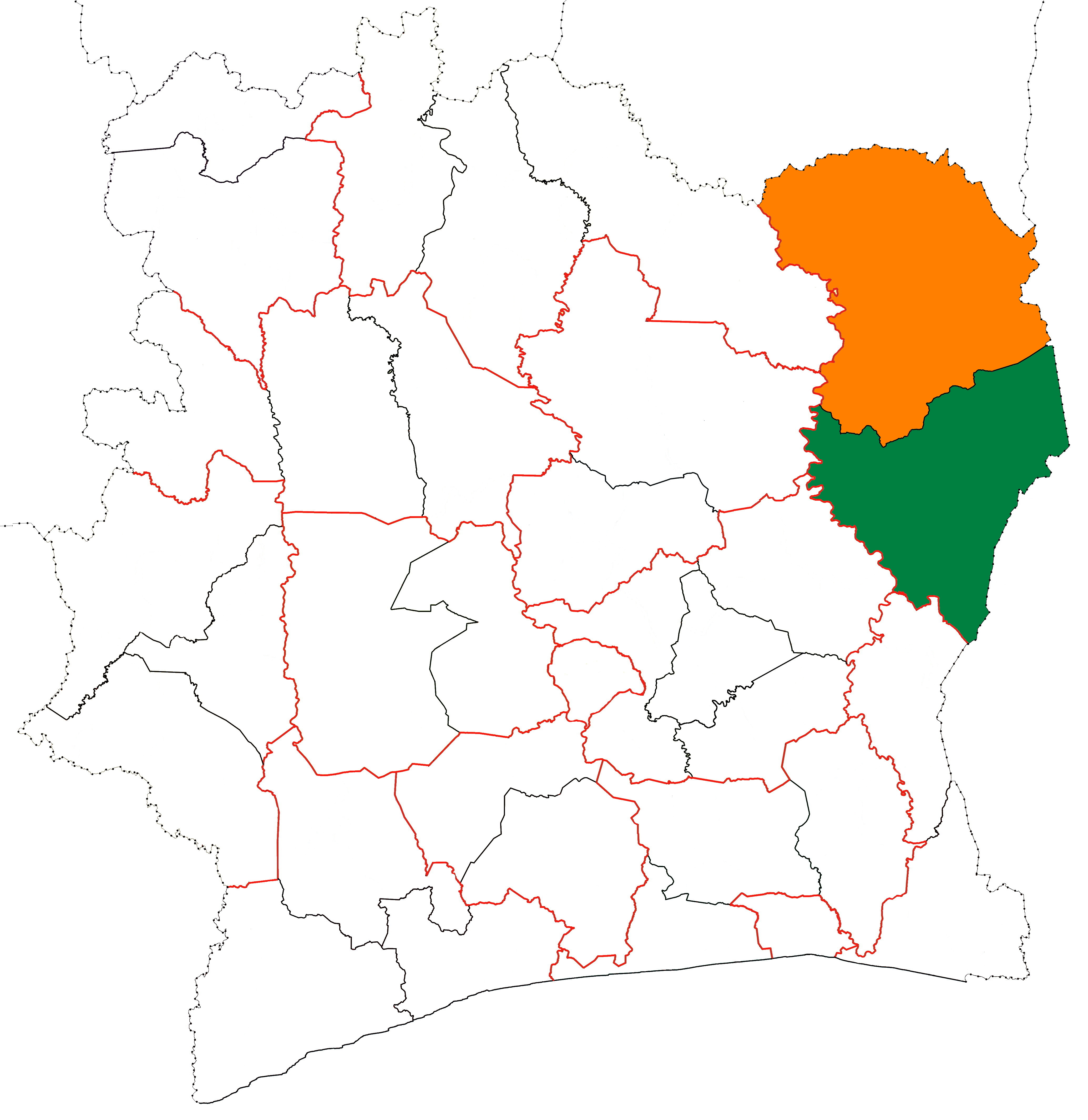 The location of Gontougo region (green) in Côte d'Ivoire. The other shaded areas represent the other parts of Zanzan District.